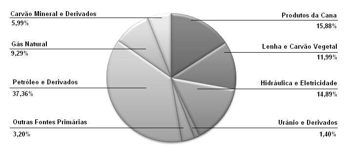 Estrutura da participação de diversas fontes de energia no Brasil. Dados 2007